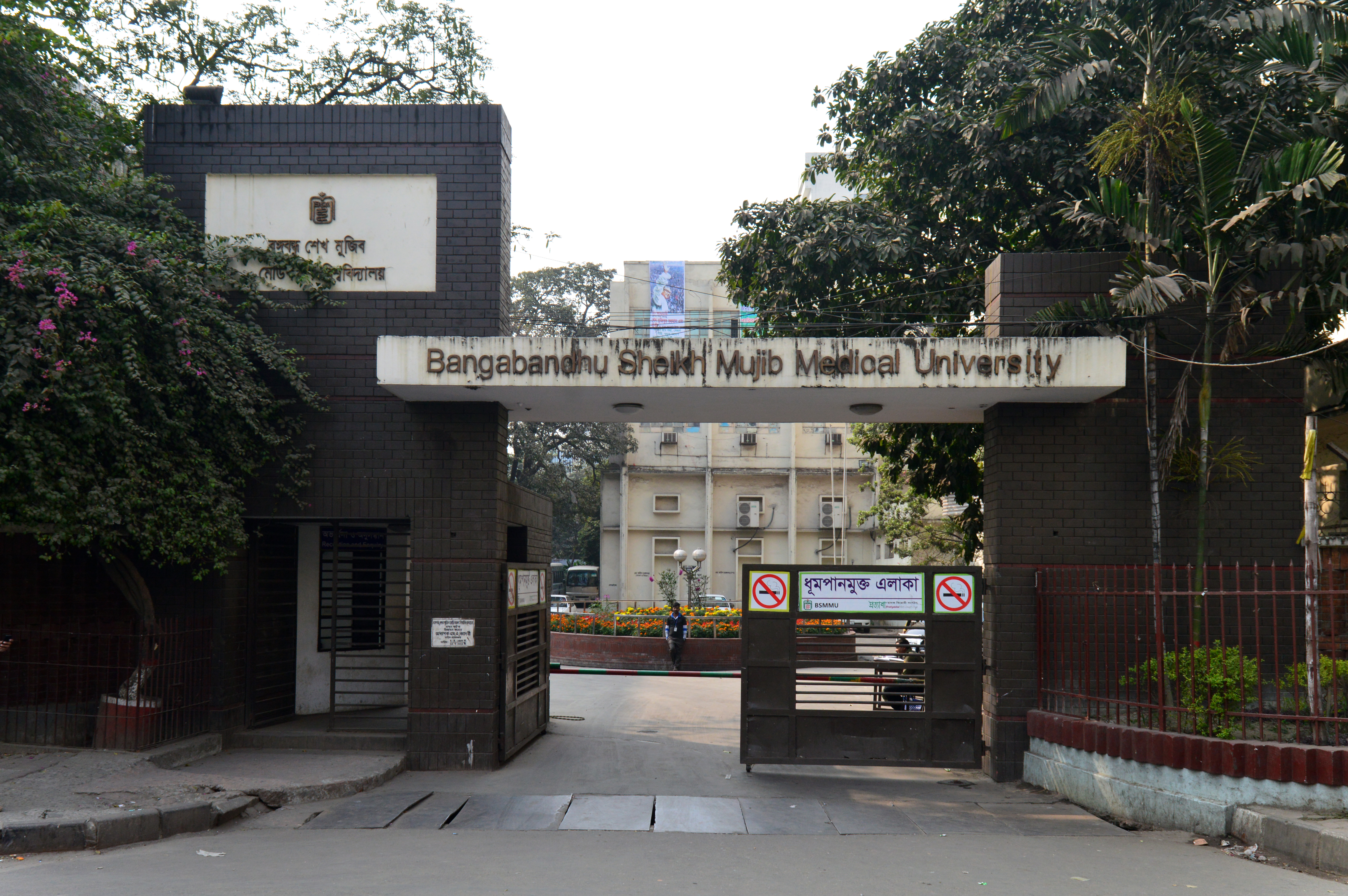 Bangabandhu Sheikh Mujib Medical University